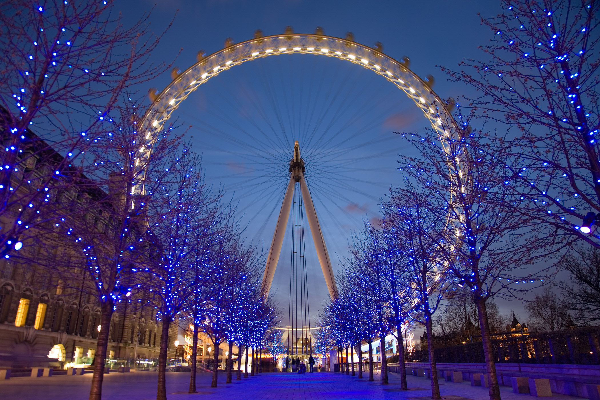 The London Eye, viewed from the rear.